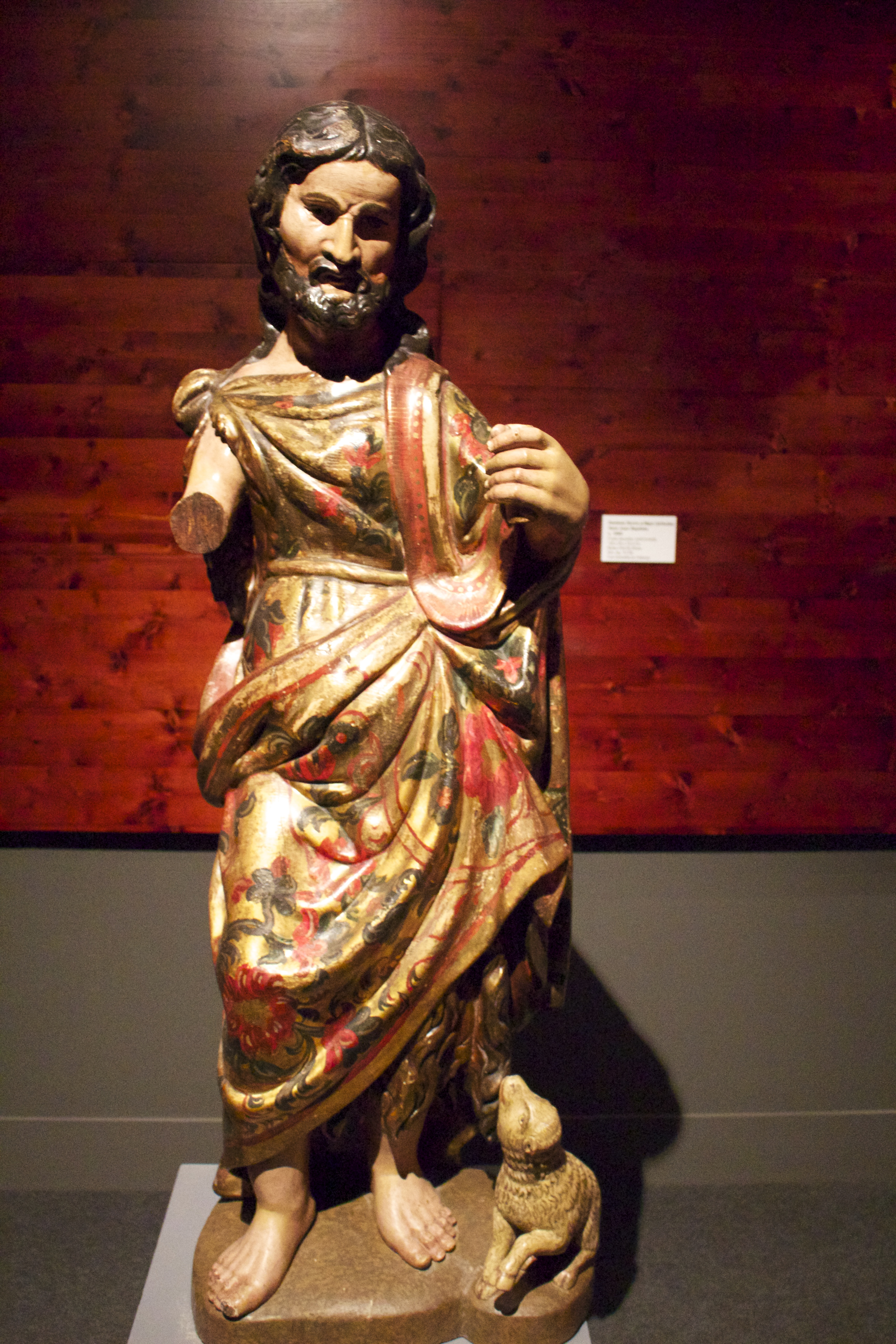 Escultura de Sant Joan Baptista que actualment es troba al Museu d'Art de Girona